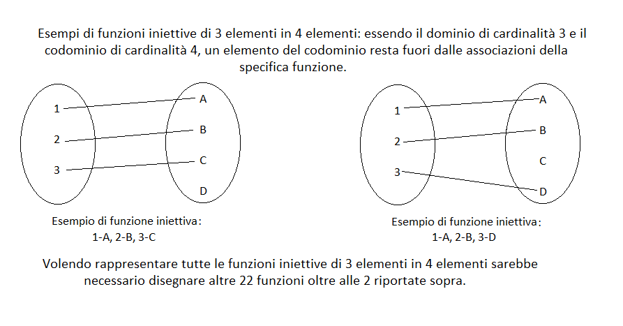 Injective functions of three elements to four elements.